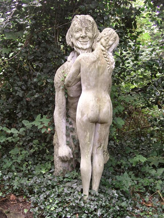 Bremerhaven, Germany: Thiele's garden, sculpture titled "Schrat"; photo taken in 2006